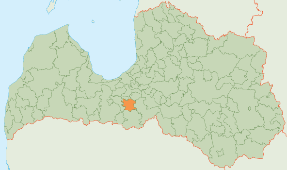 Map of Iecava